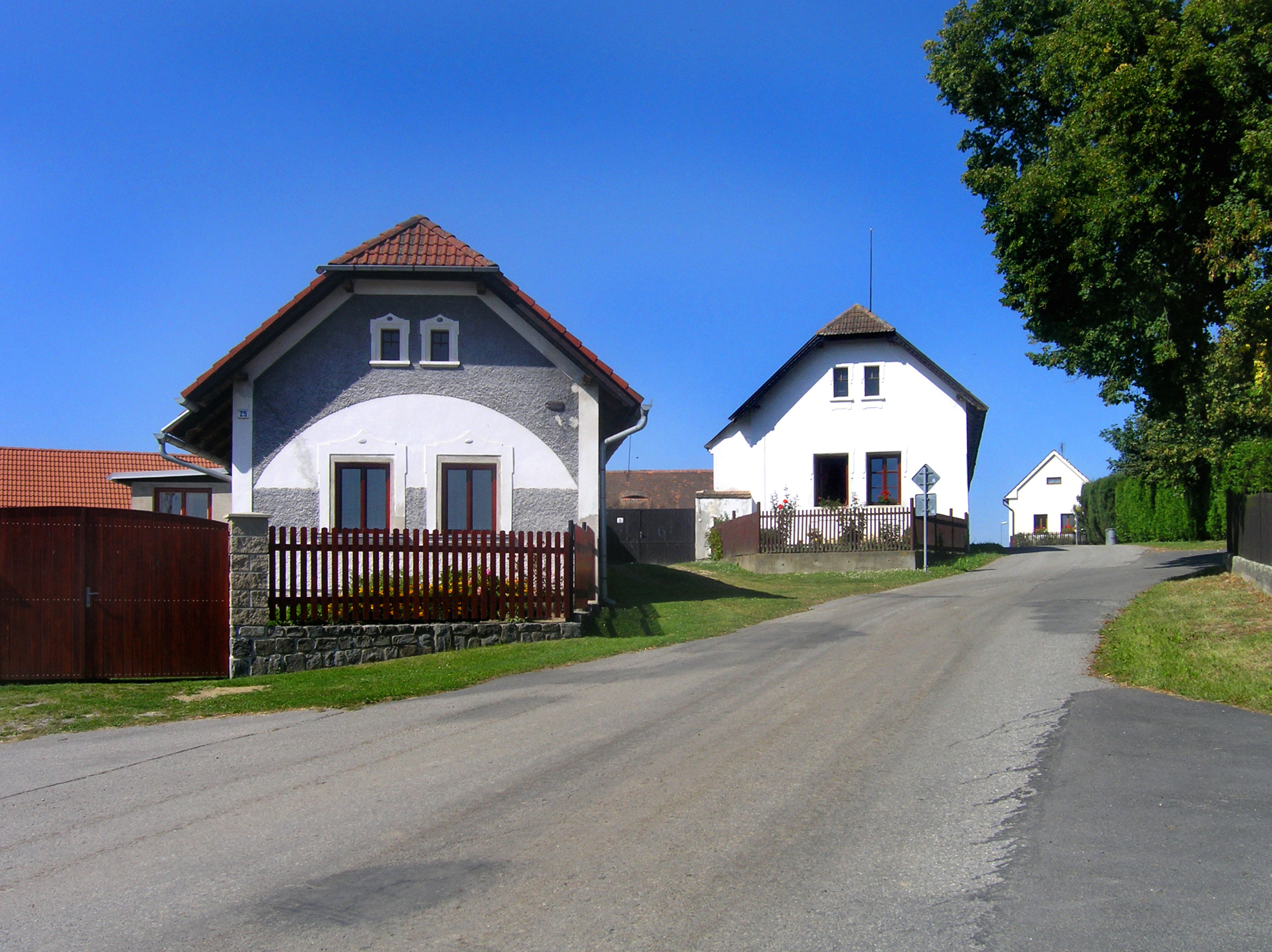 Common in Libějice village, Czech Republic